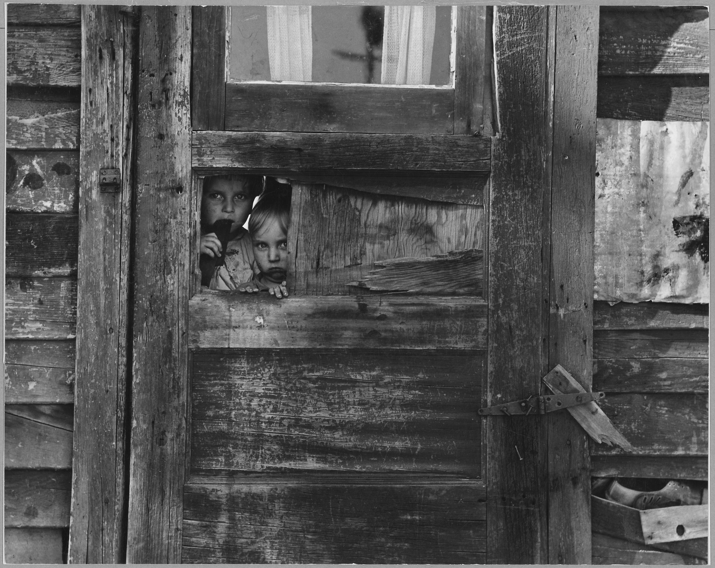 Original Caption: Between Weedpatch and Lamont, Kern County, California. Children living in camp... Rent $2.75 plus electricity. U.S. National Archives' Local Identifier: NWDNS-83-G-41456 From: Series: Photographic Prints Documenting Programs and Activities of the Bureau of Agricultural Economics and Predecessor Agencies, compiled ca. 1922 - ca. 1947, documenting the period ca. 1911 (Record Group 83) Created by: Department of Agriculture. Bureau of Agricultural Economics. Division of Economic Information. (ca. 1922 - ca. 1953) Production Date: 04/12/1940 Photographer: Lange, Dorothea, 1895-1965 Persistent URL: Repository: Still Pictures Unit at the National Archives at College Park (College Park, MD) For information about ordering reproductions of photographs held by the U.S. National Archives' Still Picture Unit, visit: Reproductions may be ordered via an independent vendor. The U.S. National Archives maintains a list of vendors at Access Restrictions: Unrestricted Use Restrictions: Unrestricted